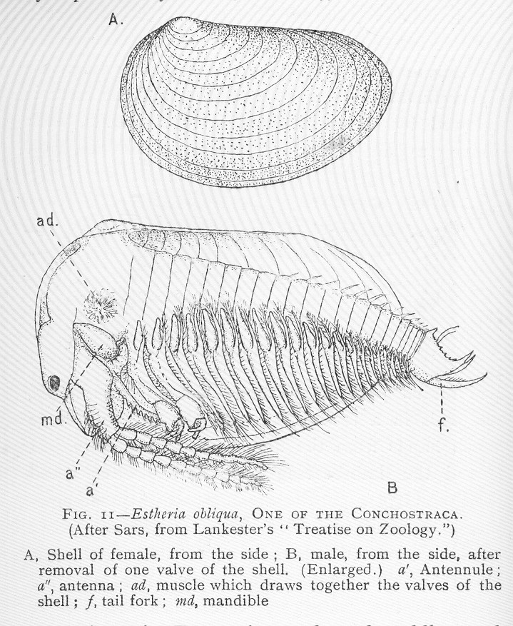 Estheria obliqua, one of the Conchostraca A: Shell of female from the side; B, male from the side, after removal of one valve of the snell. a' Antennule; a', antenna; ad, muscle which draws together the valves of the shell; f, tail fork; md, mandible Subject: Conchostraca Tag: Invertebrates